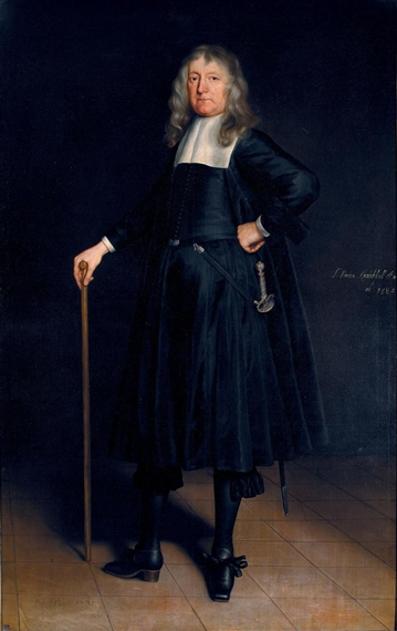 Portrait of Sir Norton Knatchbull, 1st Baronet (1602–1685), English politician.